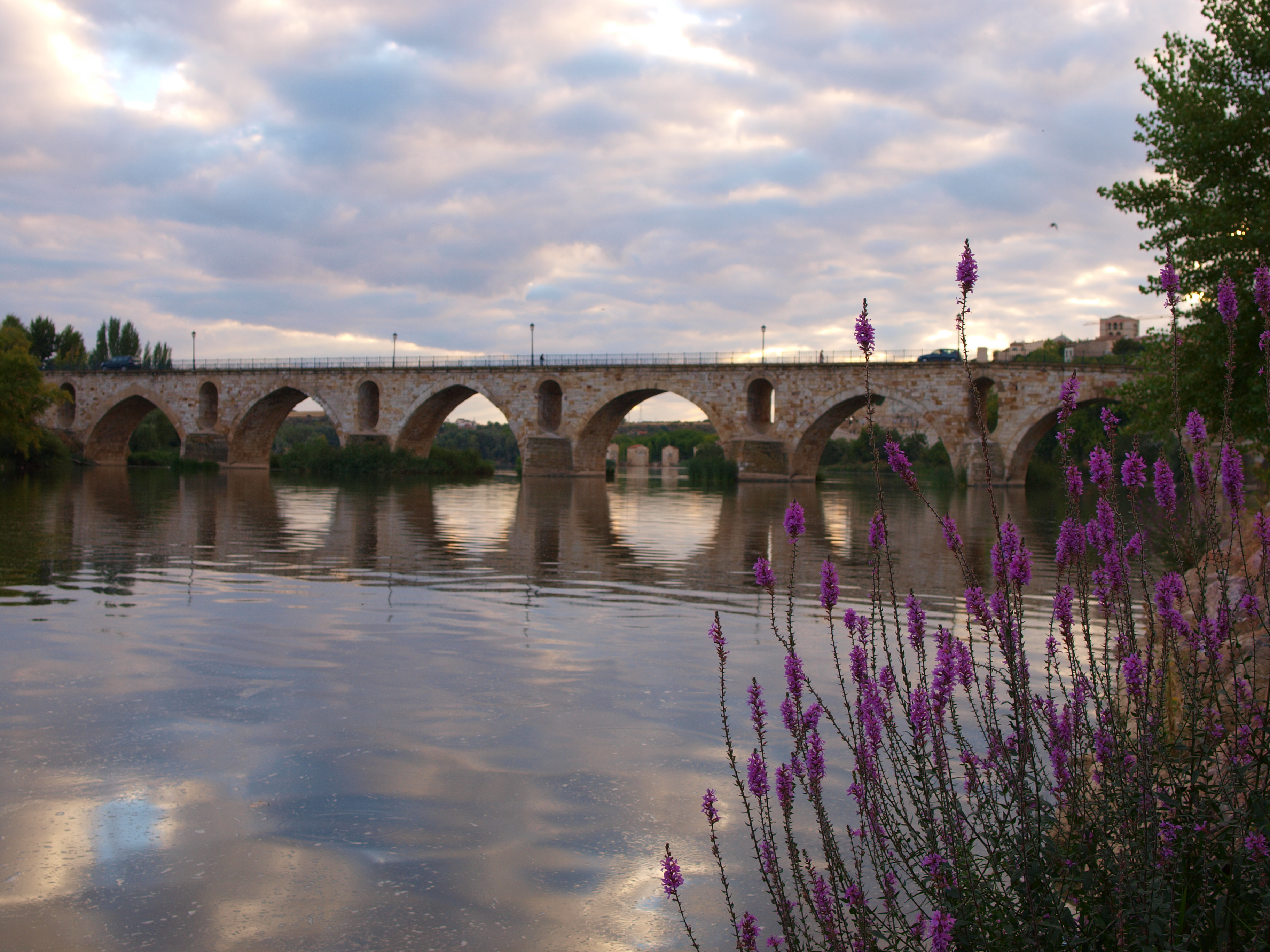 The romanesque Puente de Piedra (Stone Bridge) over the Duero river, in the spanish city of Zamora